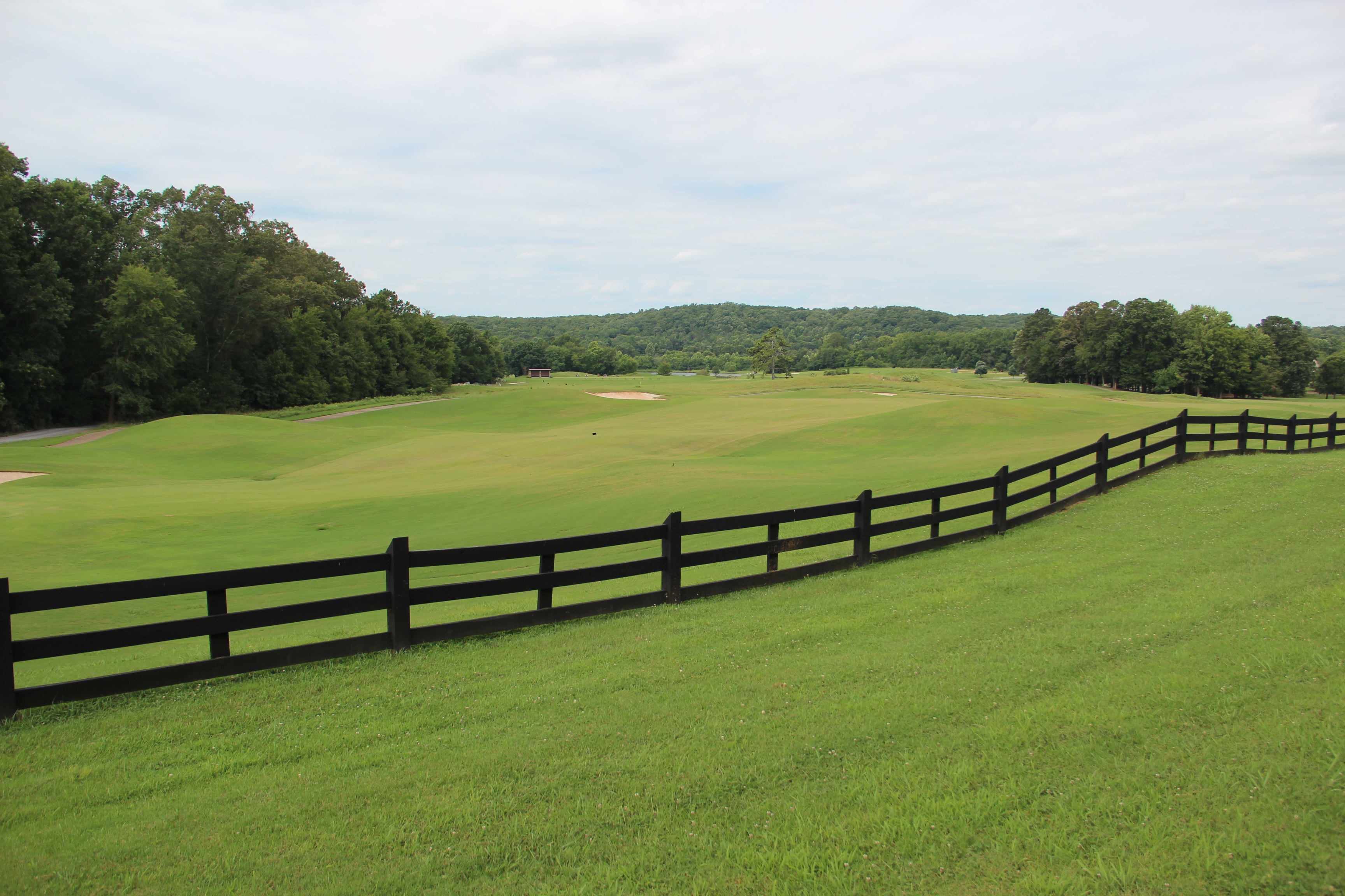 Barnsley Resort Golf Course